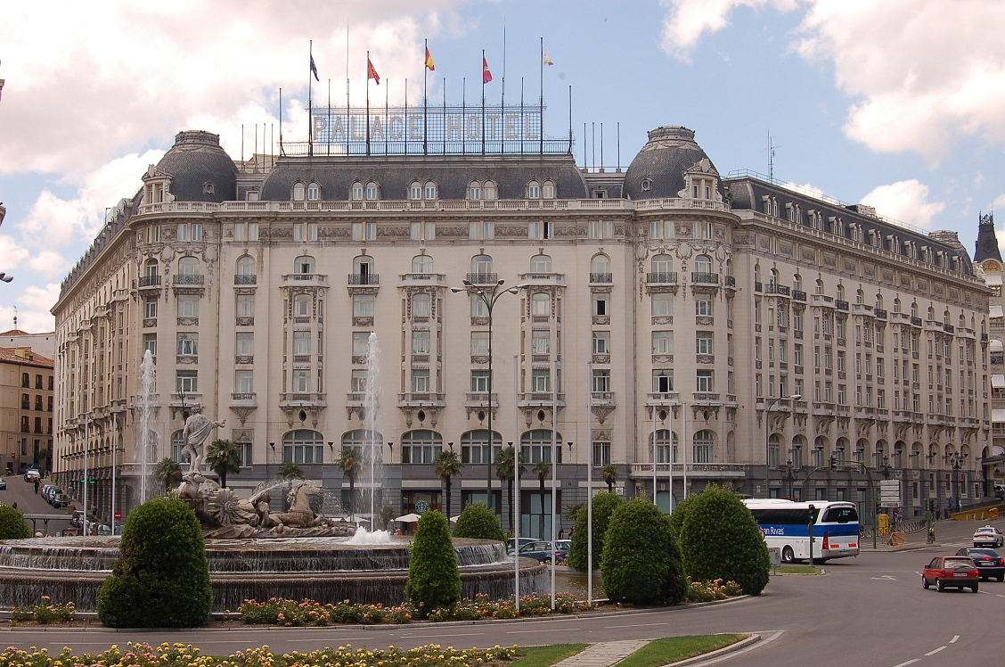 View of the Palace Hotel in Madrid (Spain) from Plaza de Cánovas del Castillo (square).